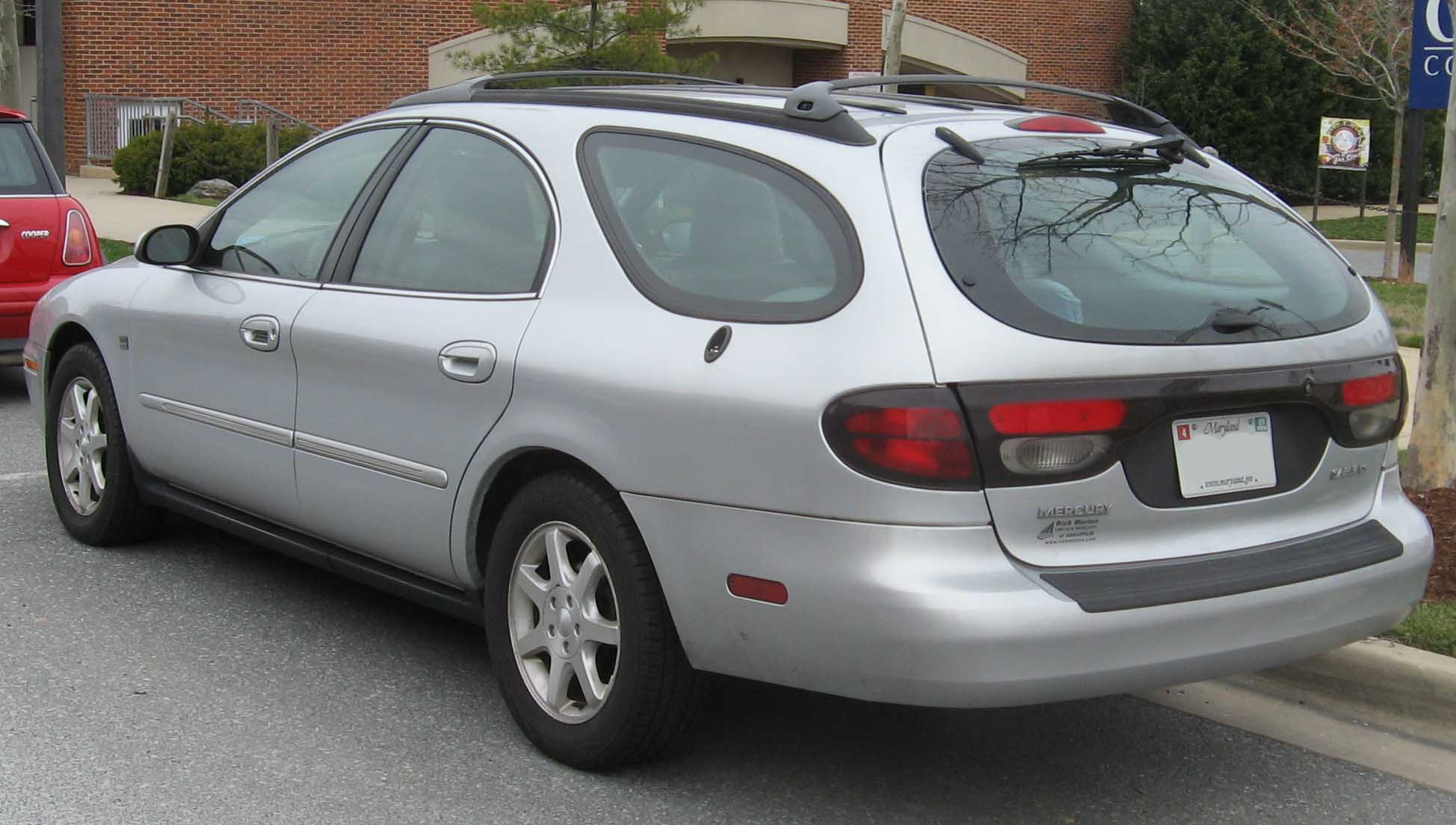 2000-2003 Mercury Sable photographed in College Park, Maryland, USA.